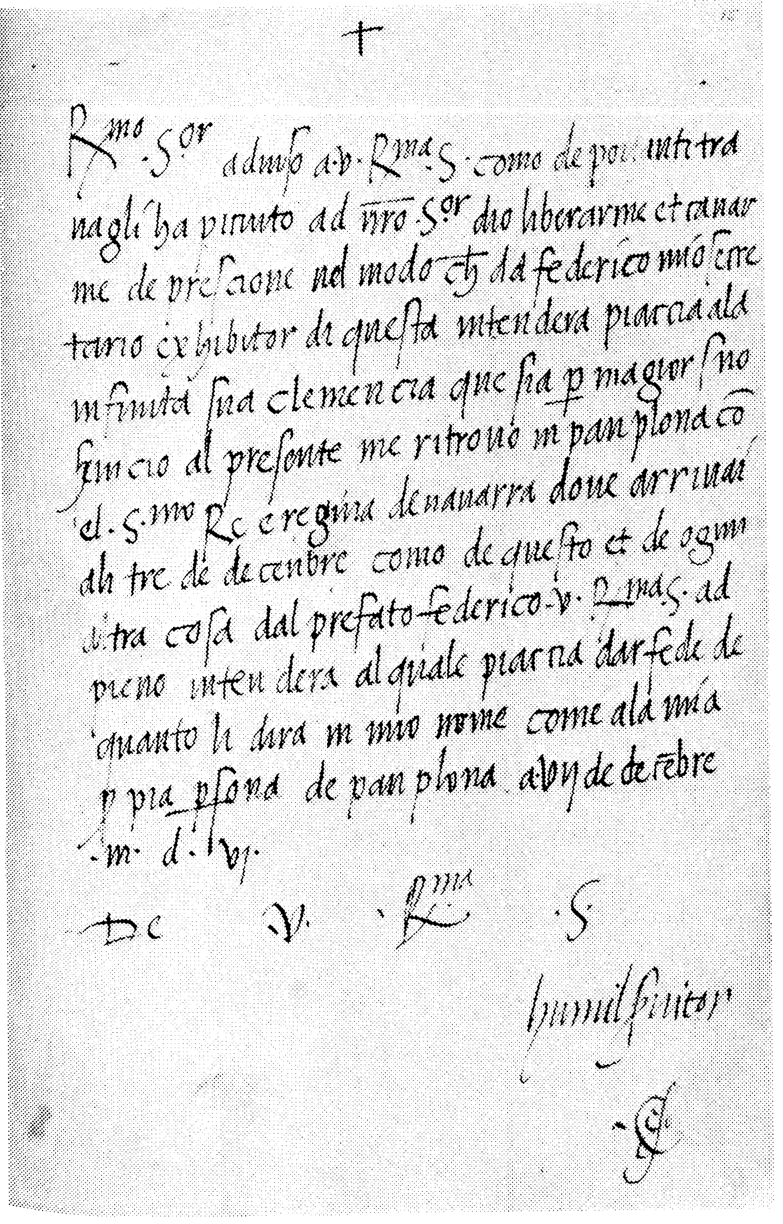 Holograph letter by Cesare Borgia to Cardinal Ippolito d'Este, 7 December 1506, written from exile in Pamplona, Spain